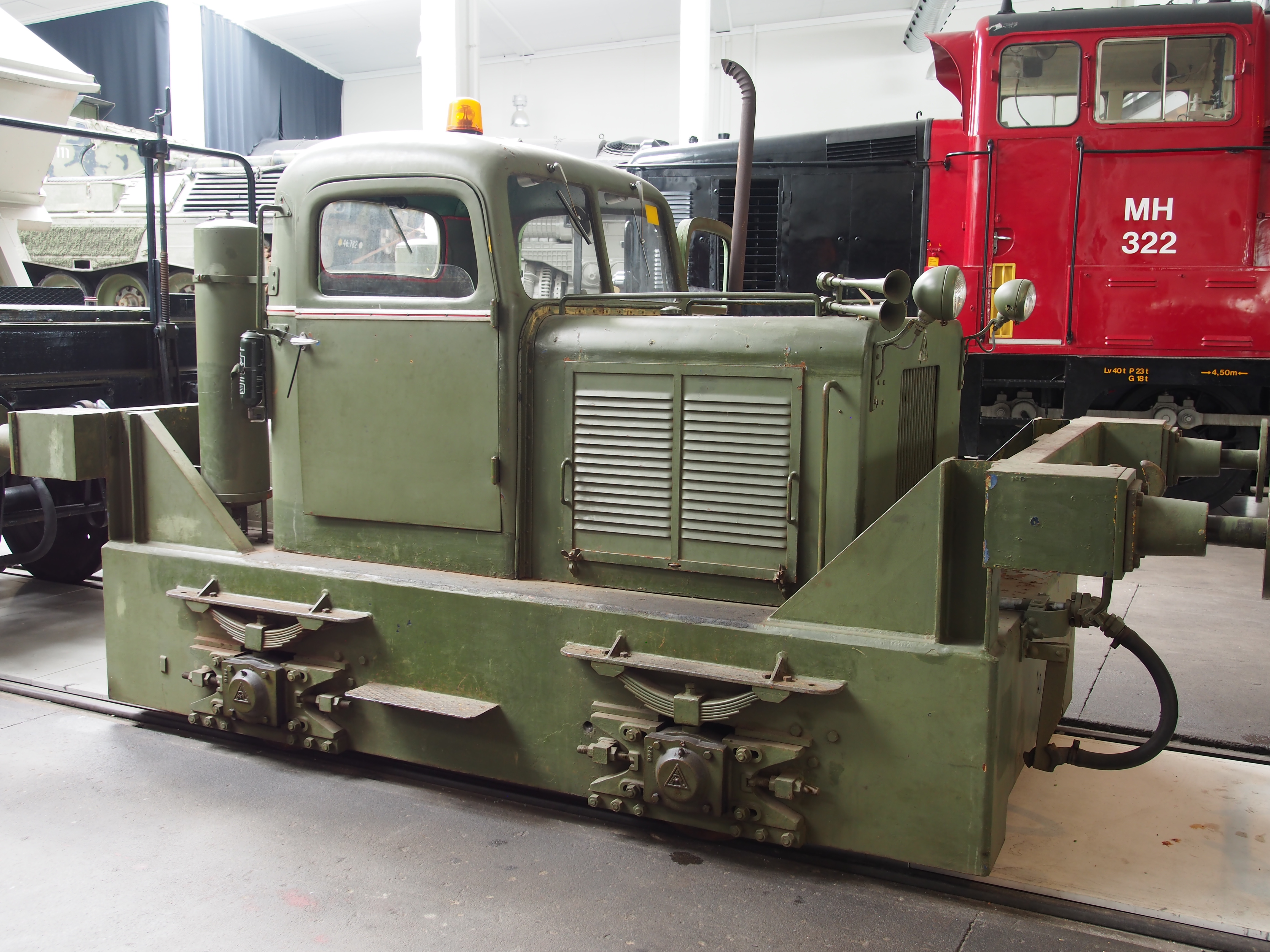 Photographed at the Danmarks Jernbanemuseum.